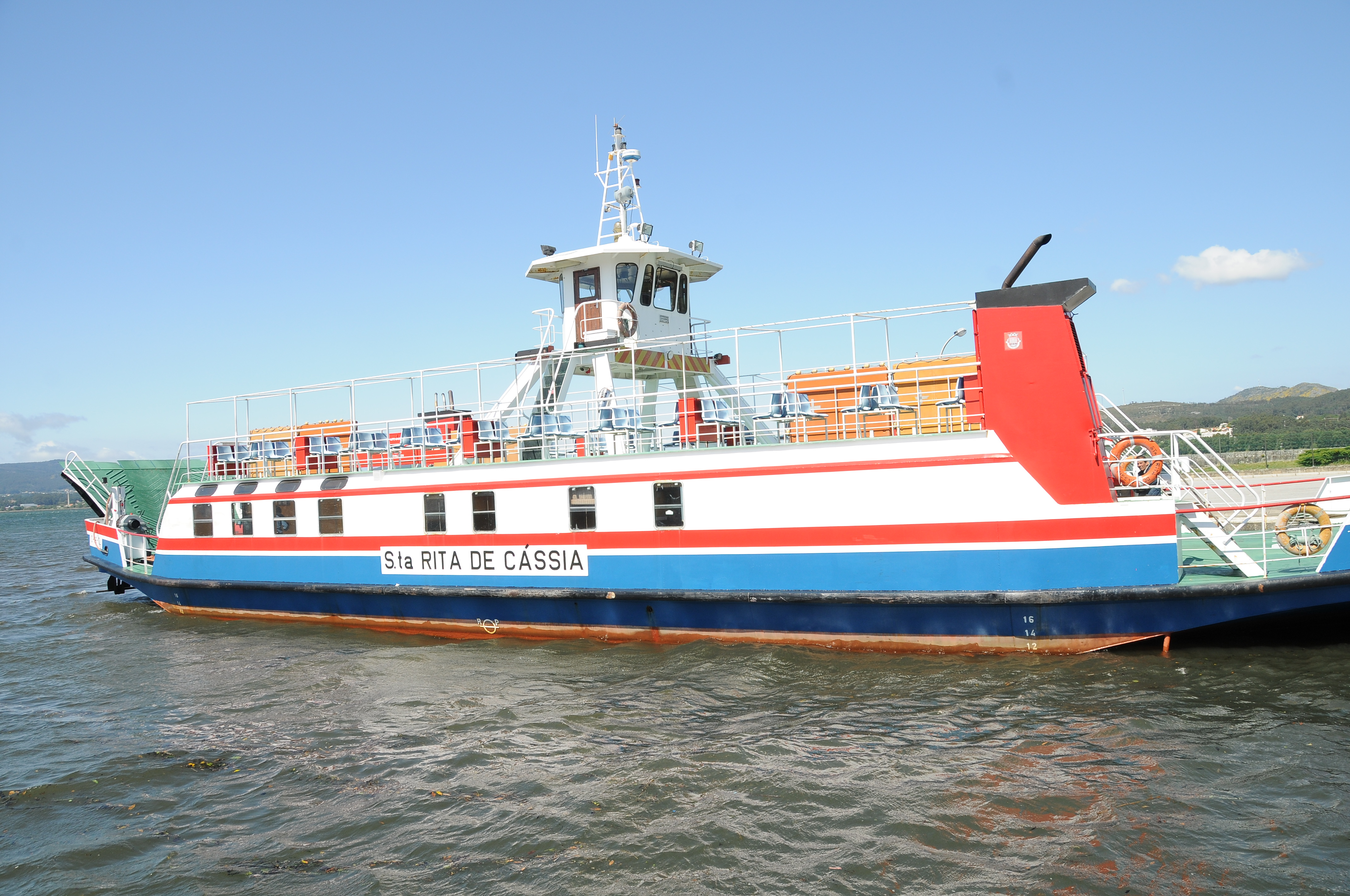 Santa Rita de Cássia Ferry in Caminha, Portugal